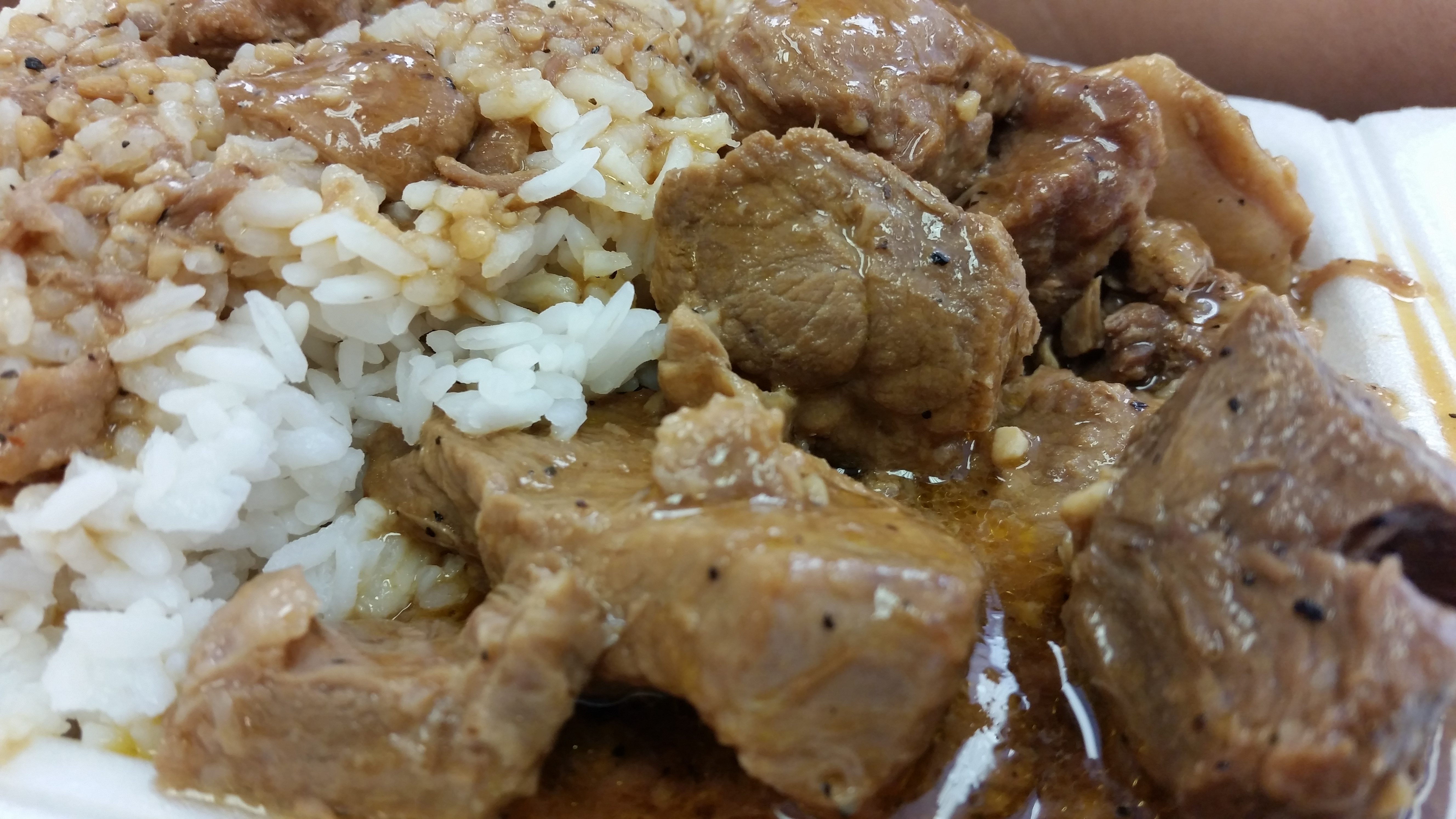 Pork Adobo served at Jochi Resto Grill in Chula Vista